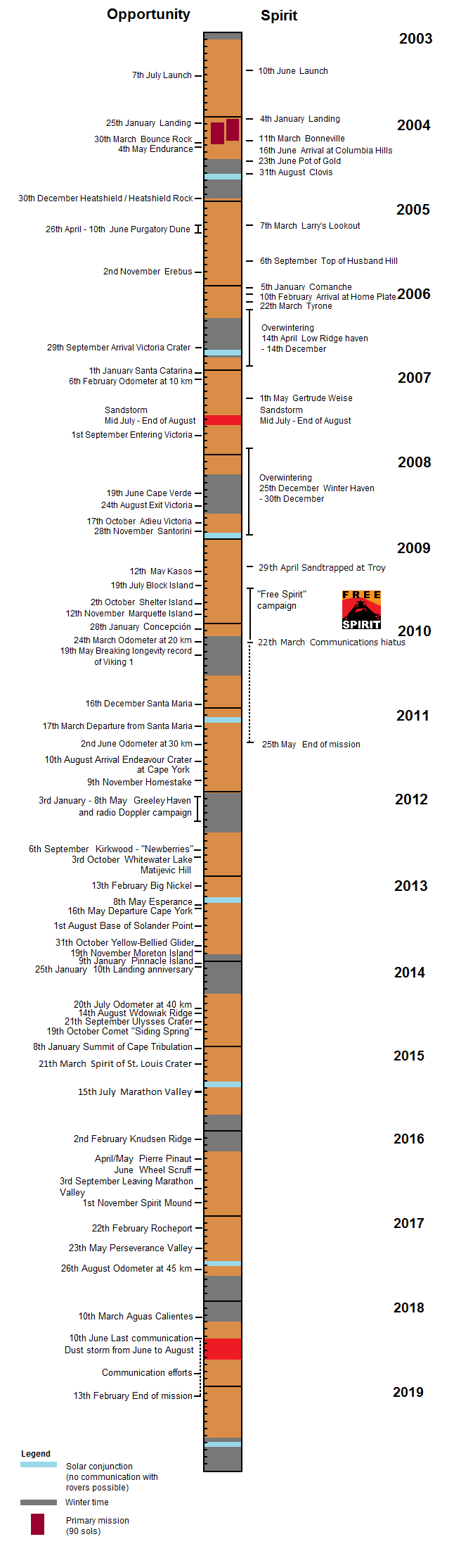 Mars Exploration Rover Timeline